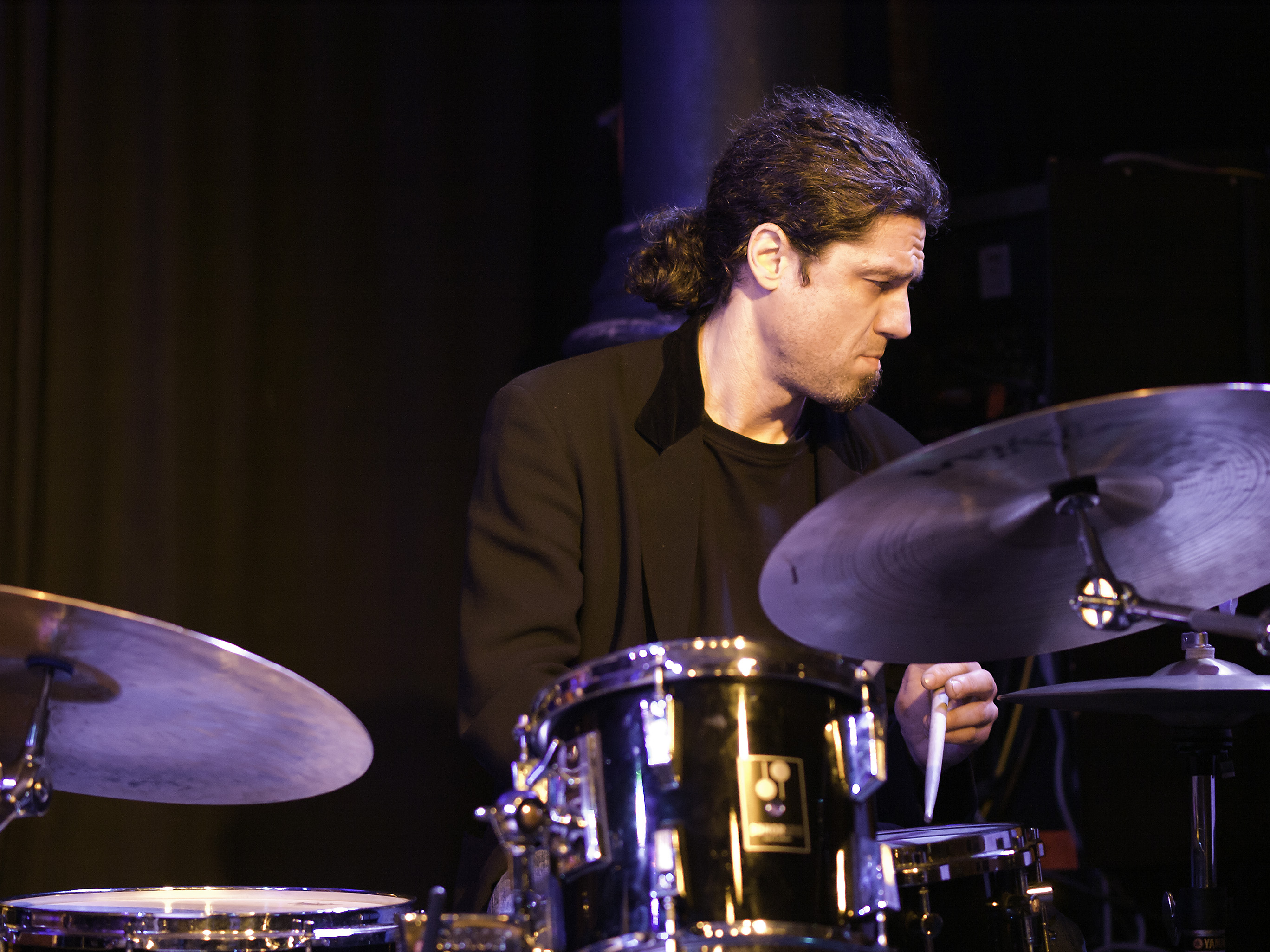 Matthias Daneck, jazz drummer; Picture taken in Jazz Club Unterfahrt, Munich/Bavaria